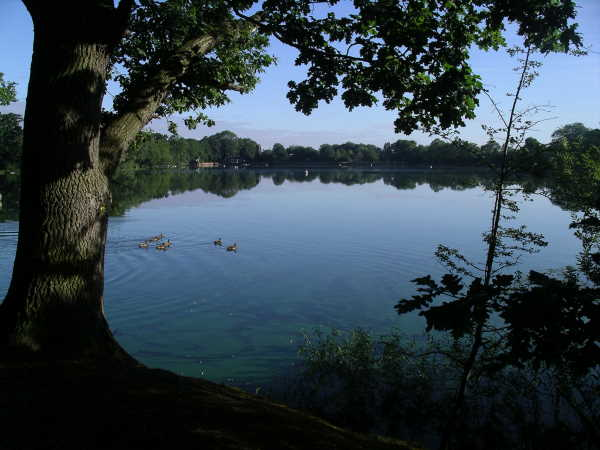 Olton Mere Looking North. Olton Mere is owned by British Waterways Board and leased by Olton Mere Sailing Club. Walking access is also available and the approximately 1 mile walk around the lake gives wide open views not often available in such a built-up area. The Lake has been used for recreational sailing since Victorian times. The sailing club can be found at